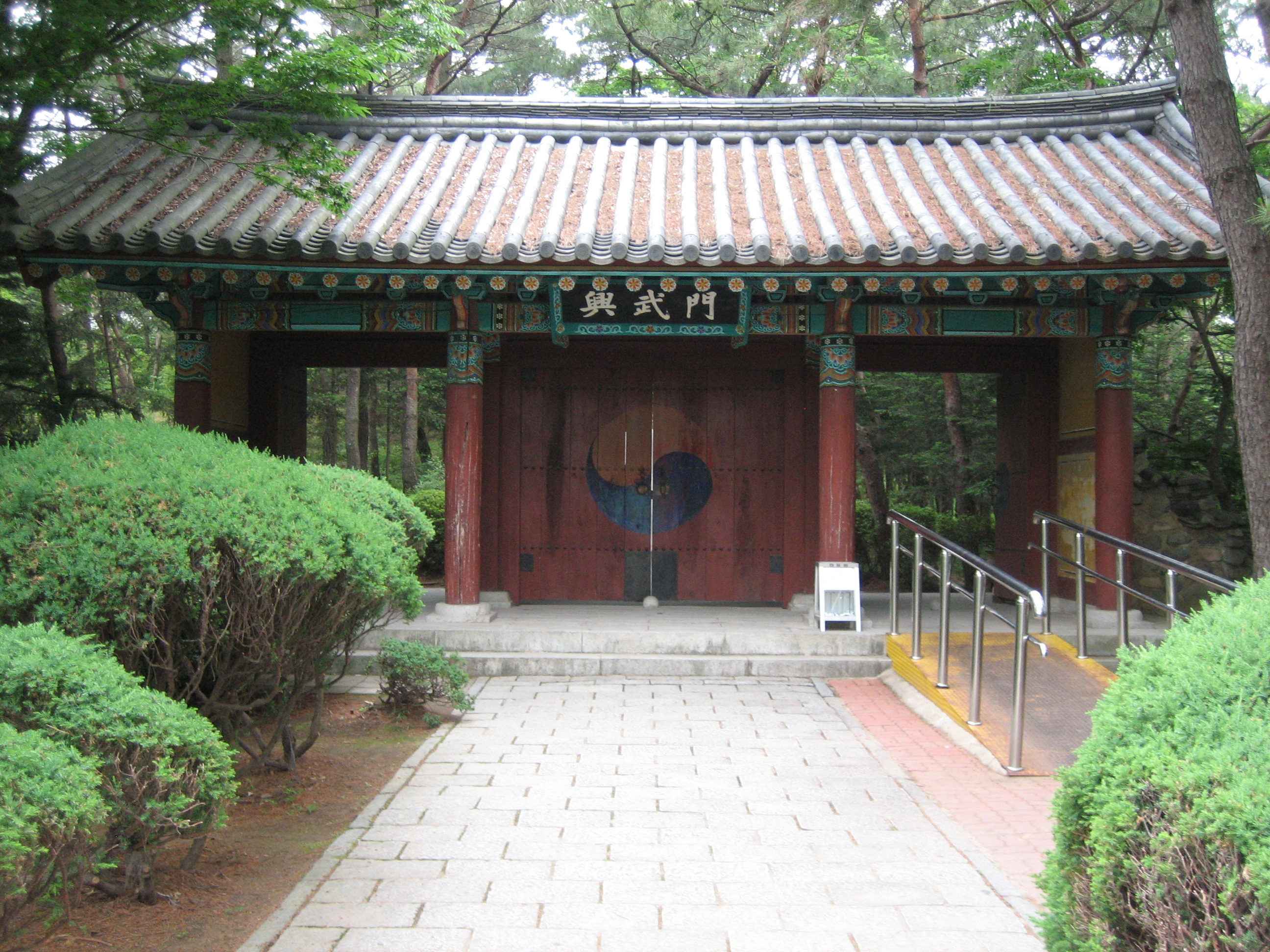 A front shot of Heungmumun gate heading to Tomb of General Kim Yusin located in Gyeongju, North Gyeongsang province, South Korea